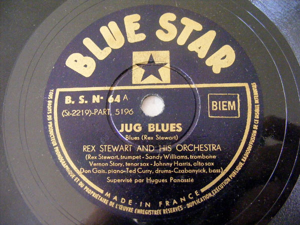 Rex Stewart - Jug Blues